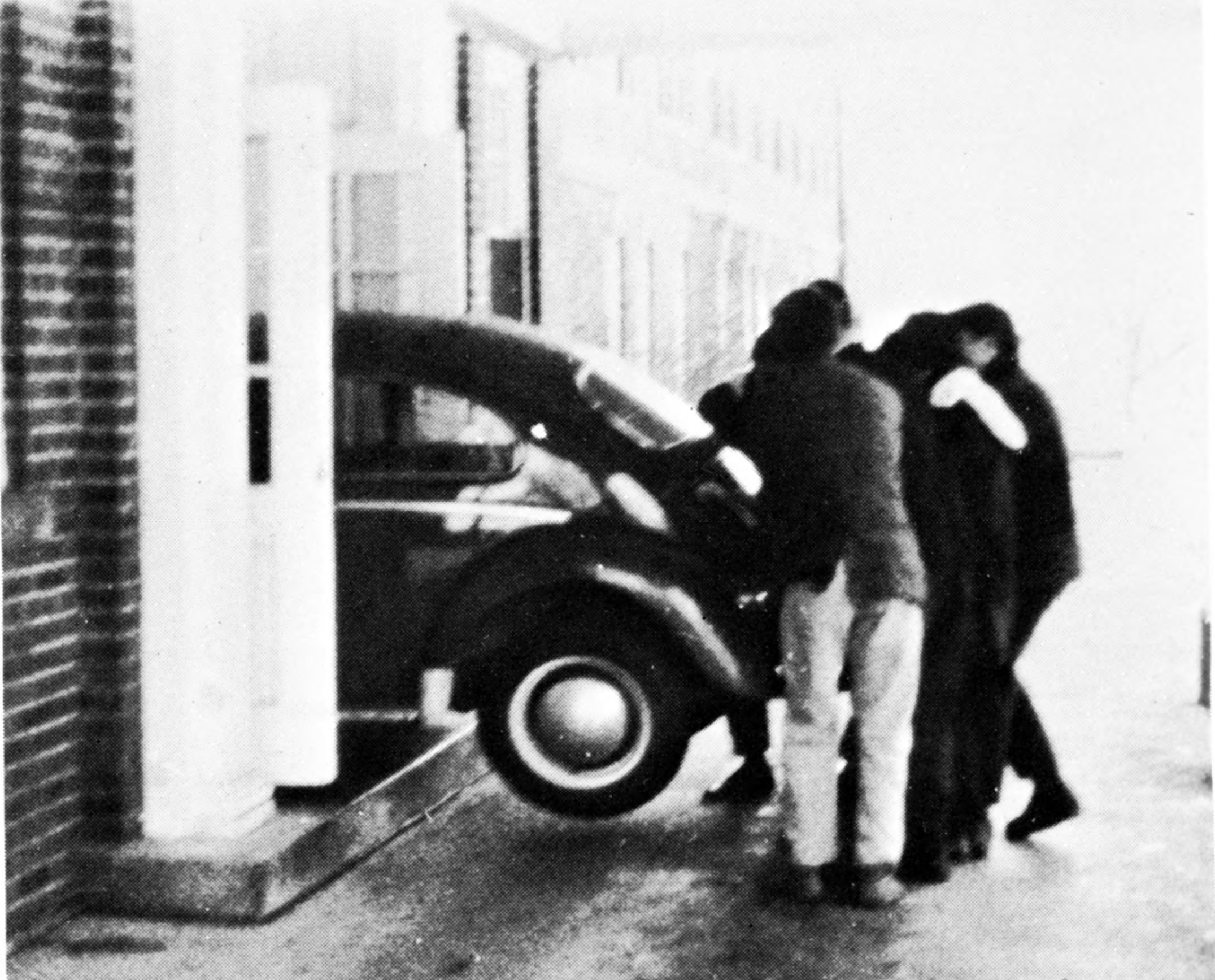 Students push a VW beetle into the lower floor of a residence hall at Shimer College as a prank. Published in the Recondite yearbook, which was published without a copyright notice.